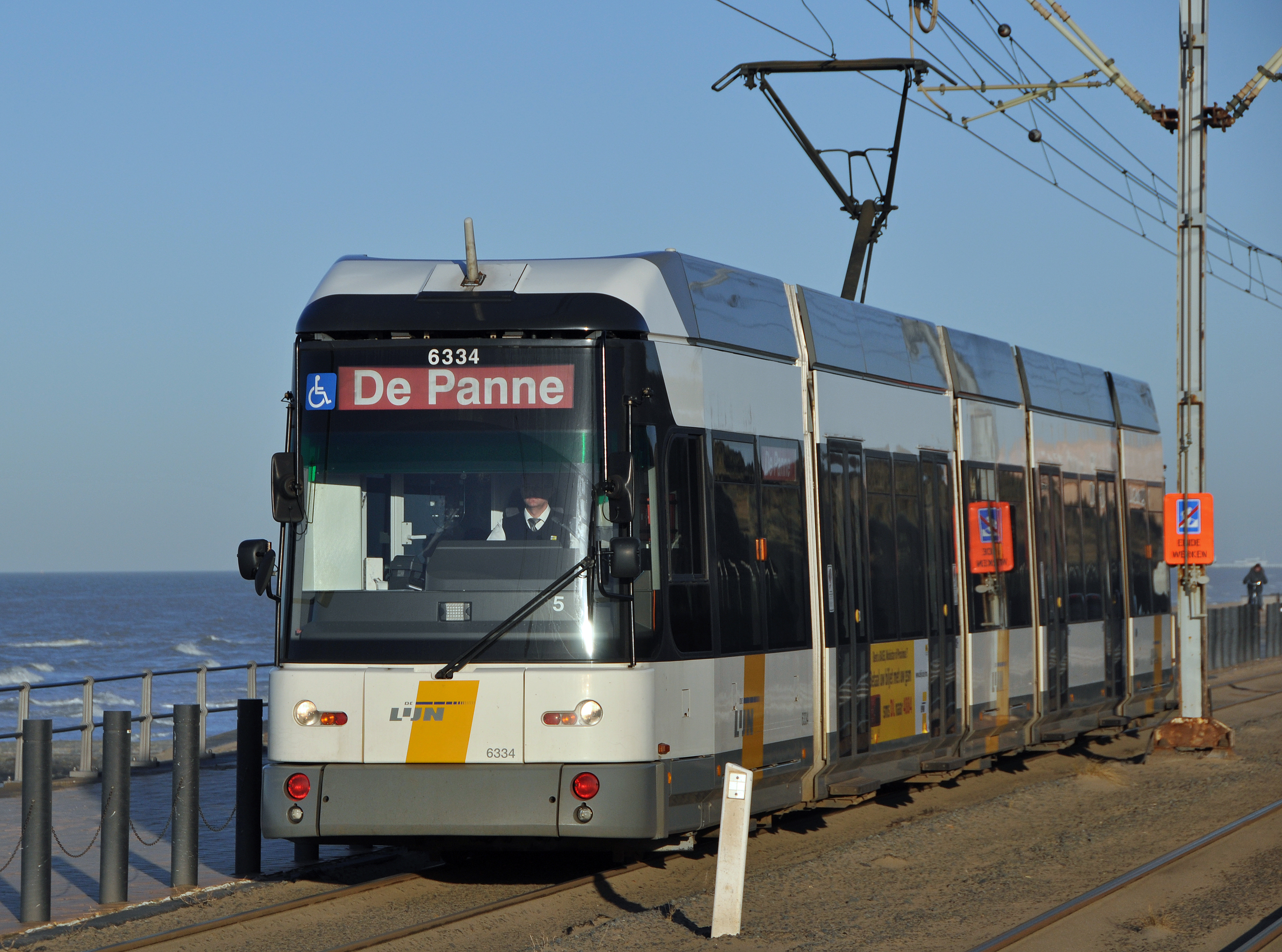 The belgian coast tram - a Siemens model MGT6-2 - at Raversijde (Ostend, Belgium), coming from Knokke and heading for De Panne